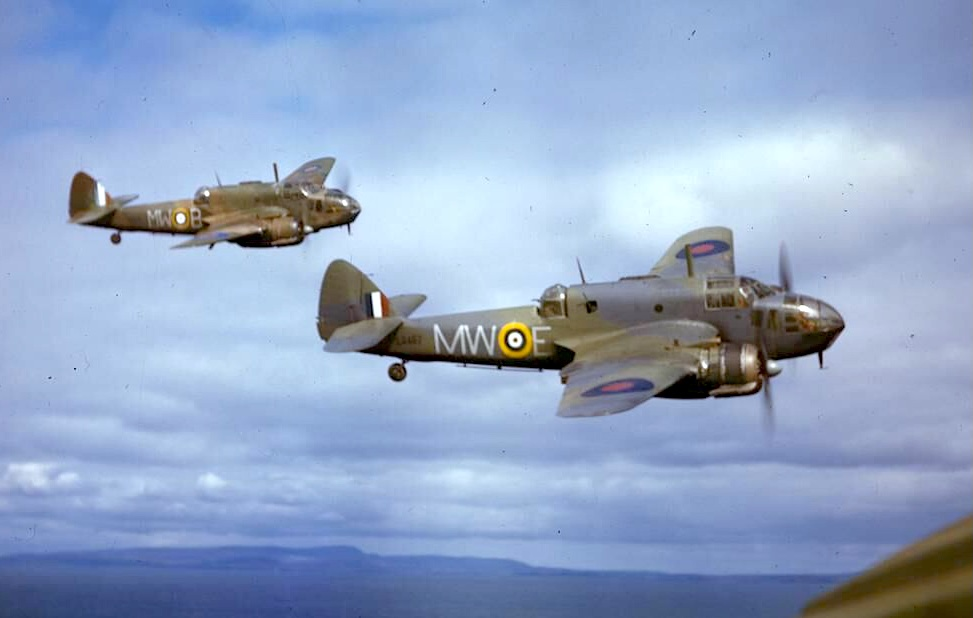 Two Royal Air Force Bristol Beauforts (N1173/`MW-E' and AW242/`MW-B') of 217 Squadron, Royal Air Force, patrolling the British coast near St. Eval, Cornwall (UK).